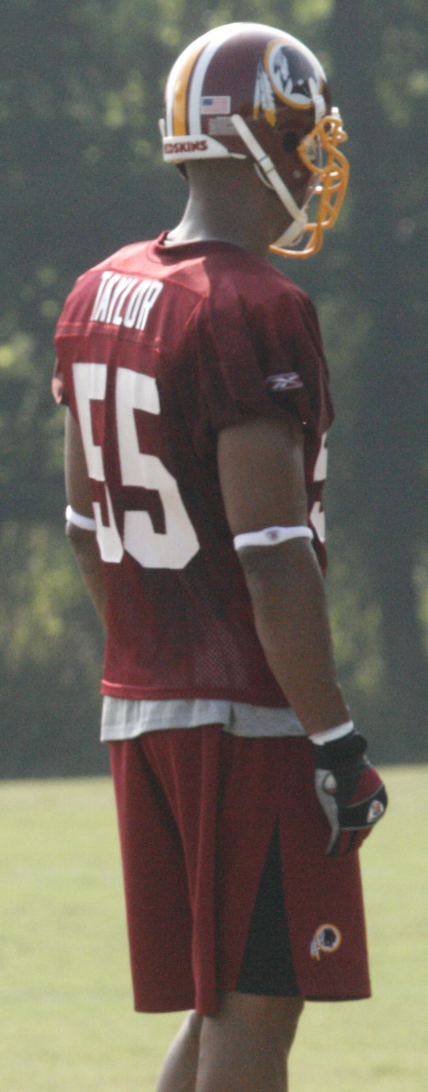 A picture of Washington Redskins DE Jason Taylor